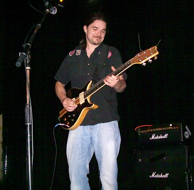 Shot of Seneca guitarist